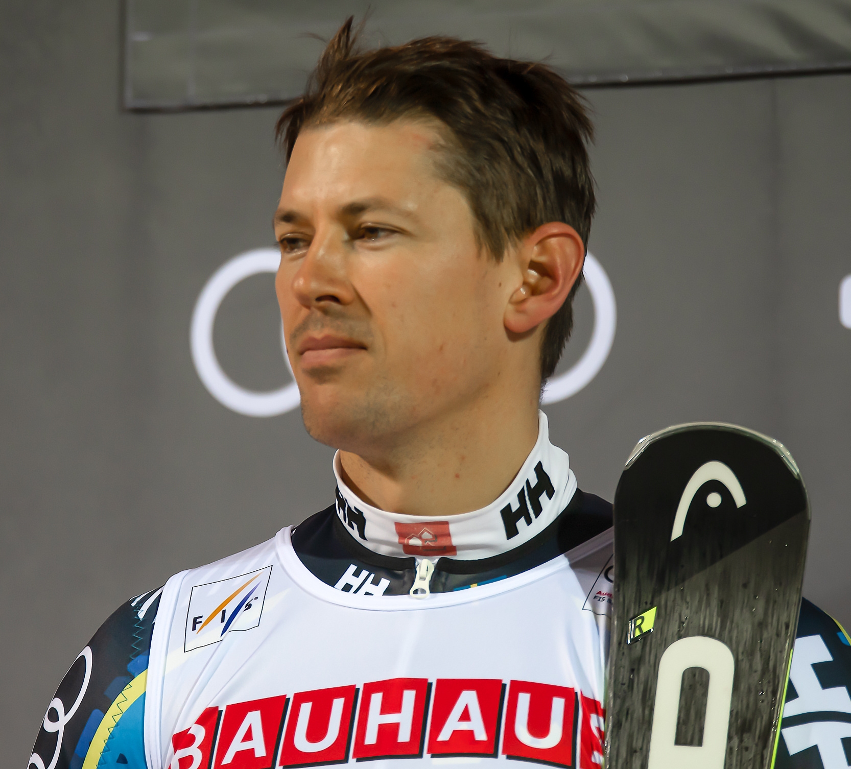 FIS Alpine Skiing World Cup in Stockholm 2019